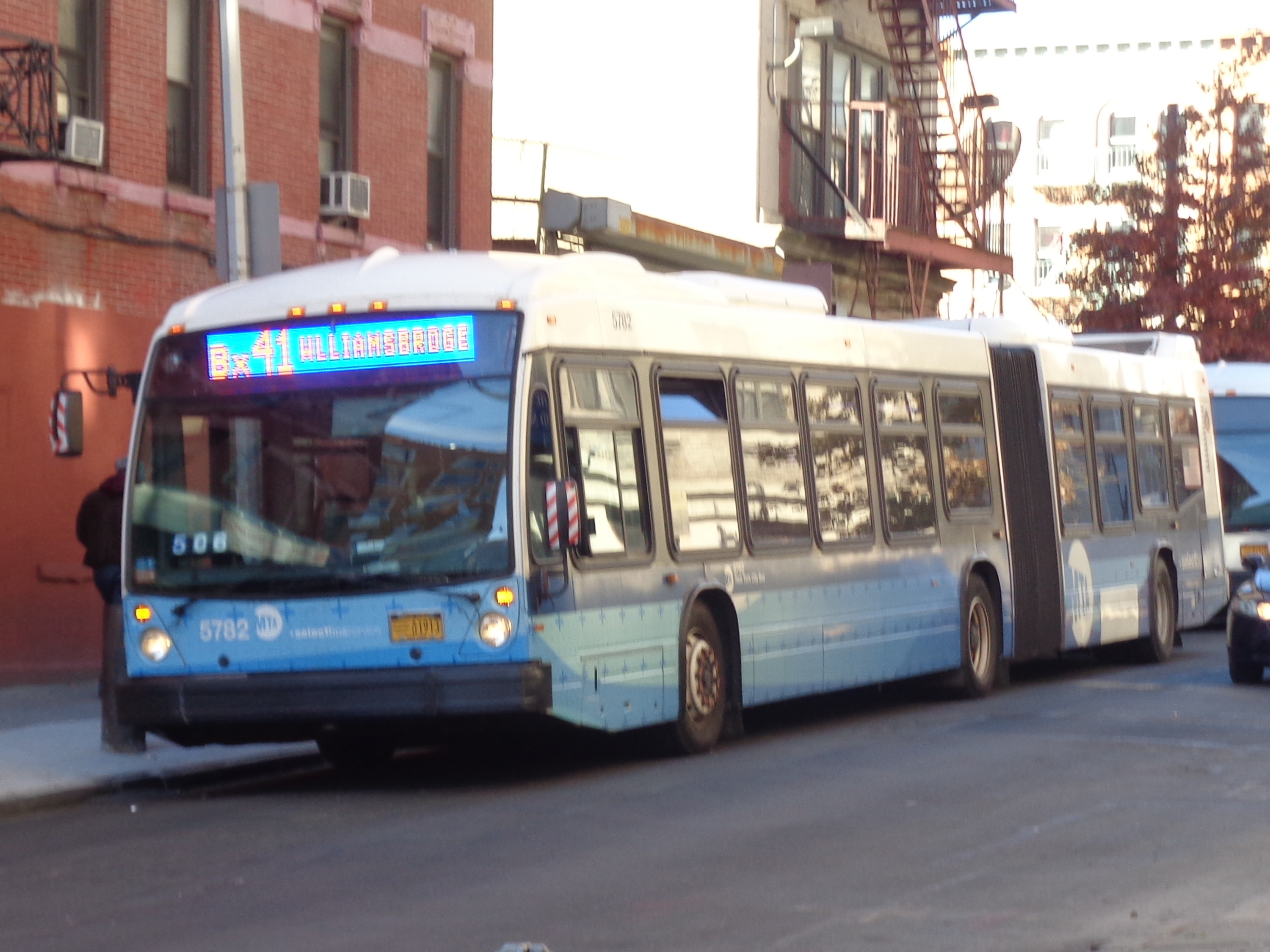 A Bx41 Select Bus Service laying over on East 148th Street in The Hub, Bronx, about to enter Williamsbridge-bound service.